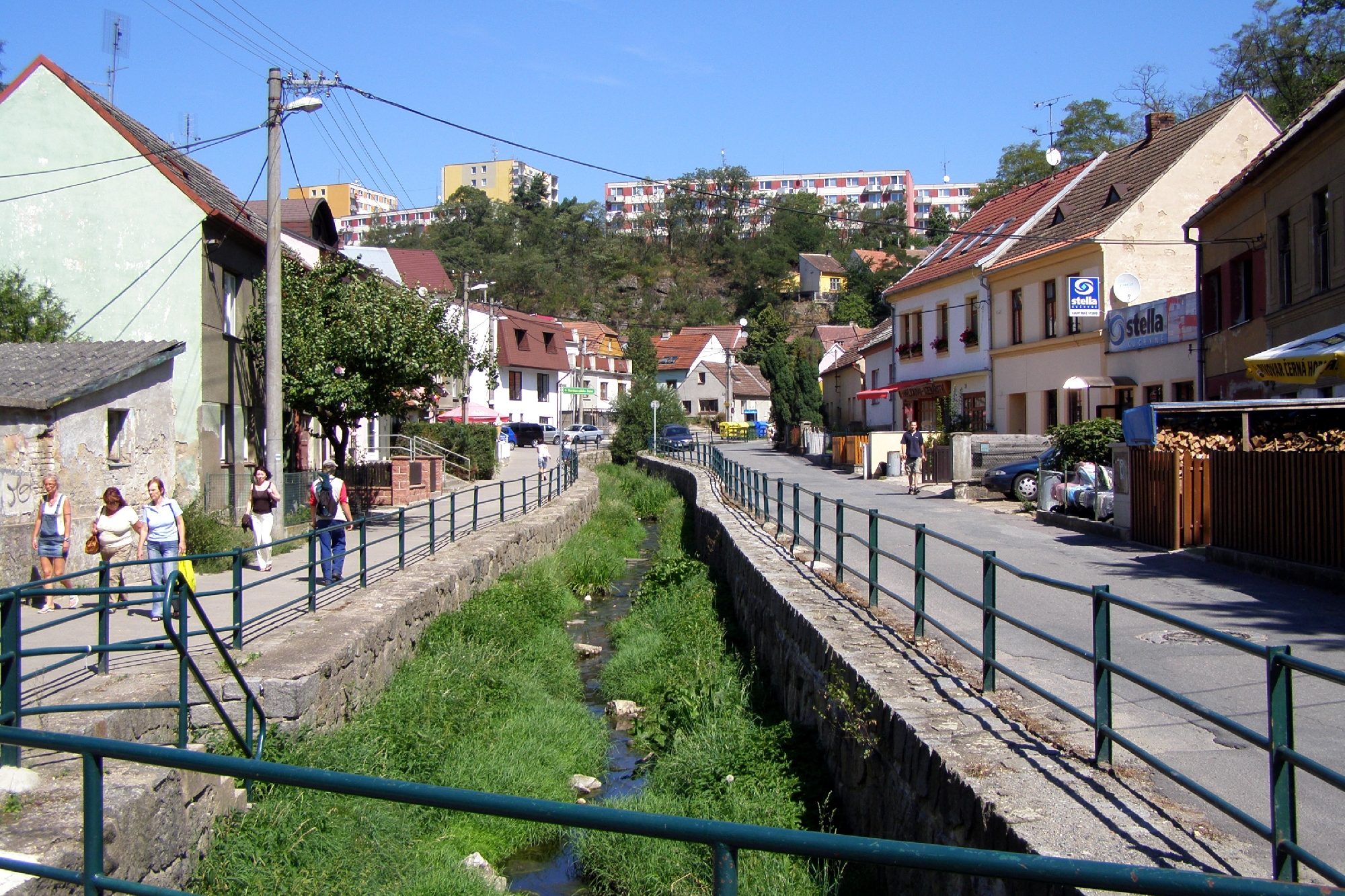 Třebíč. Nové Dvory town district. Kočičina